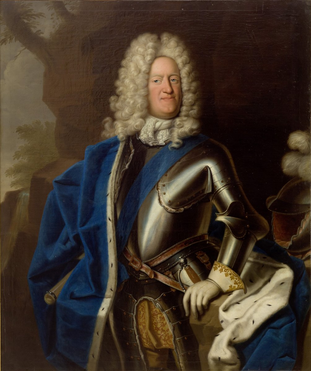 Augustus William, Duke of Brunswick-Lüneburg (1662-1731)